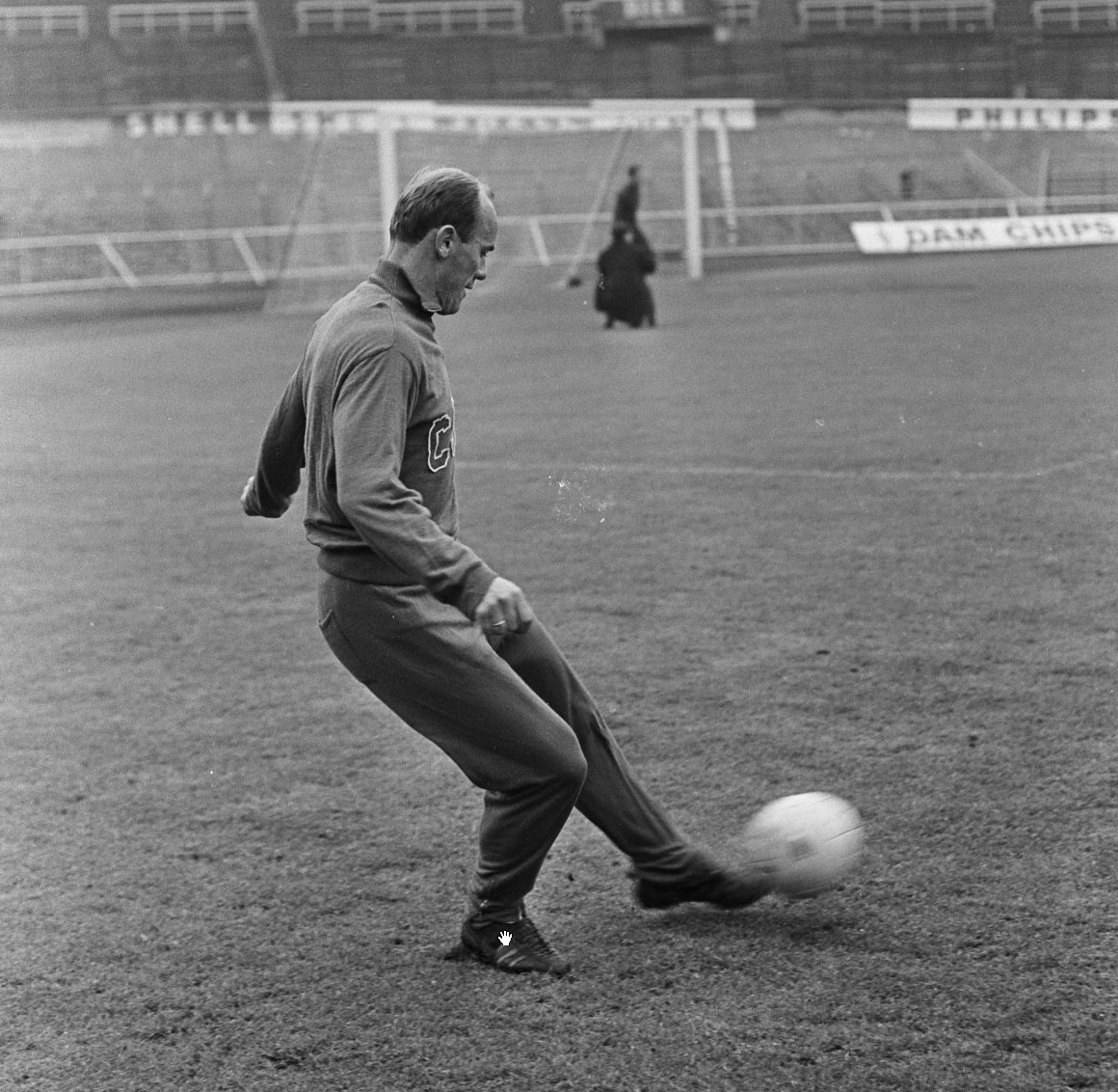 Ján Popluhár training with Czechoslovakia national football team in 1966.